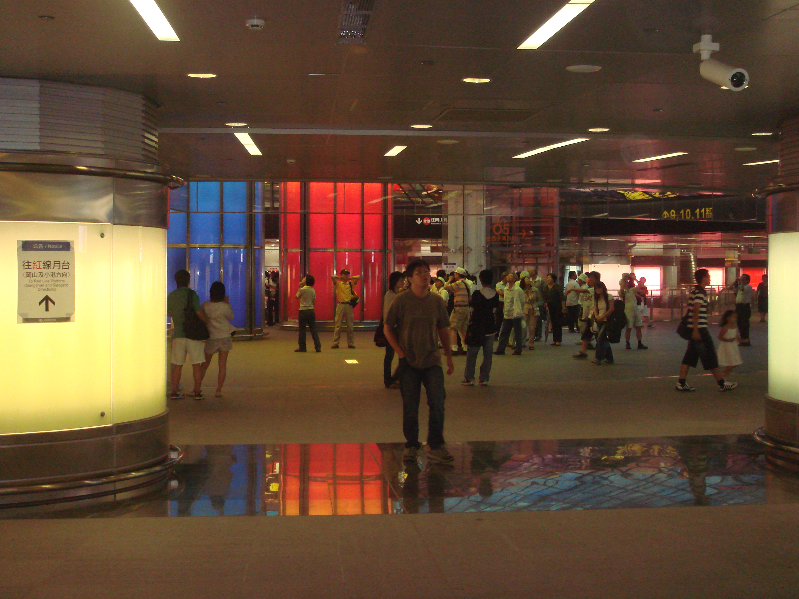 Formosa Boulevard Station Concourse